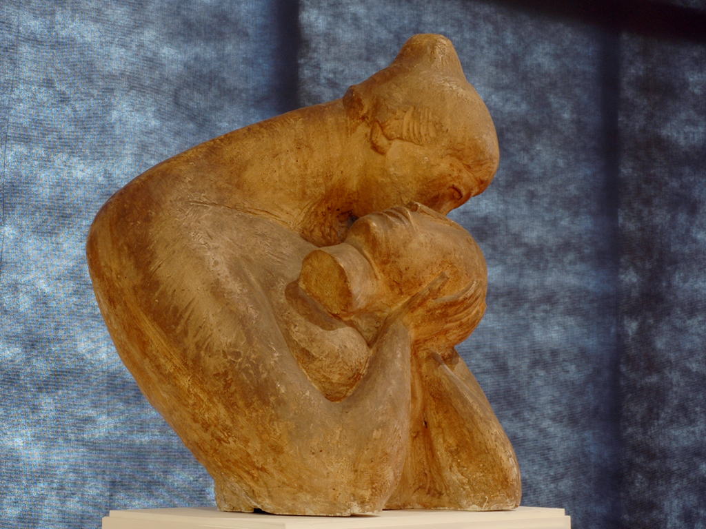 Sculpture by Jan Koblasa, Salome, patinated plaster (1956)